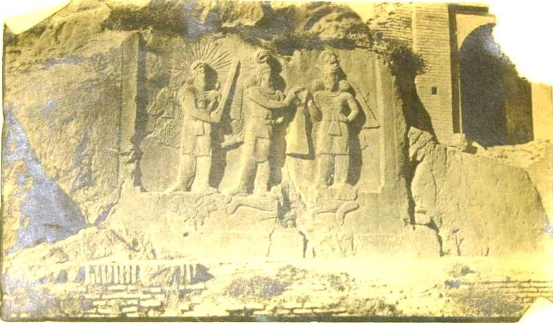 Stone Carving, Mesopotamia, Iraq, 1914-1919